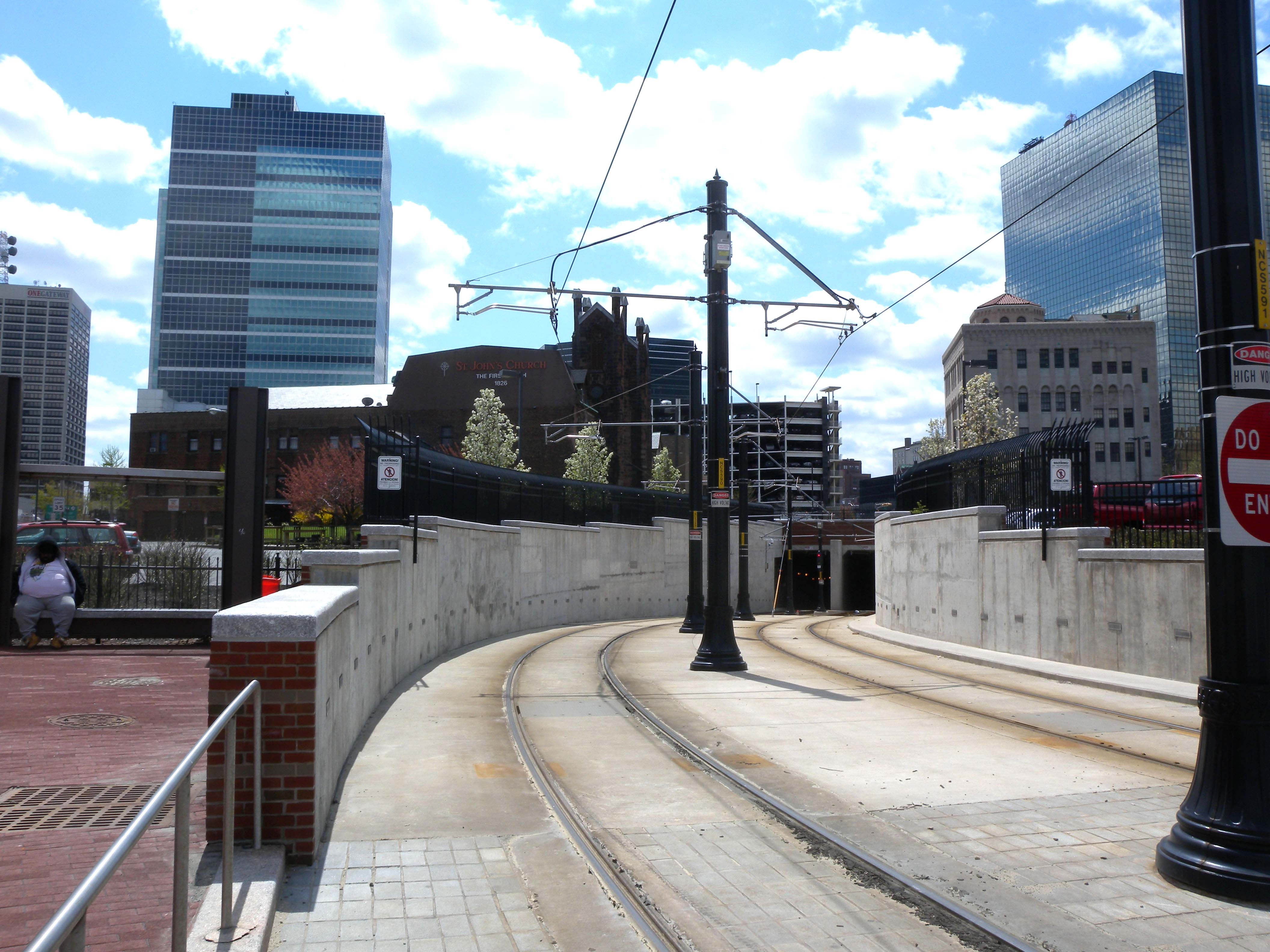 Looking south at northern portal of Newark trolley's Broad Street line on a sunny midday.